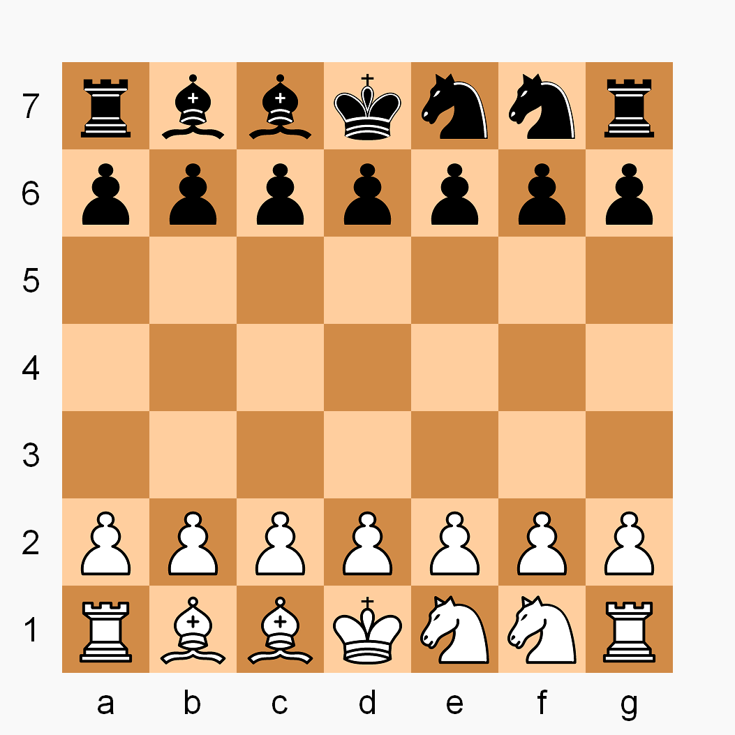 Dragonfly 7x7 initial configuration graphic, using WP ProjectChess board colors and the wonderful free-use icons provided by User:Dbenbenn (David Benbennick); all done in MS PAINT